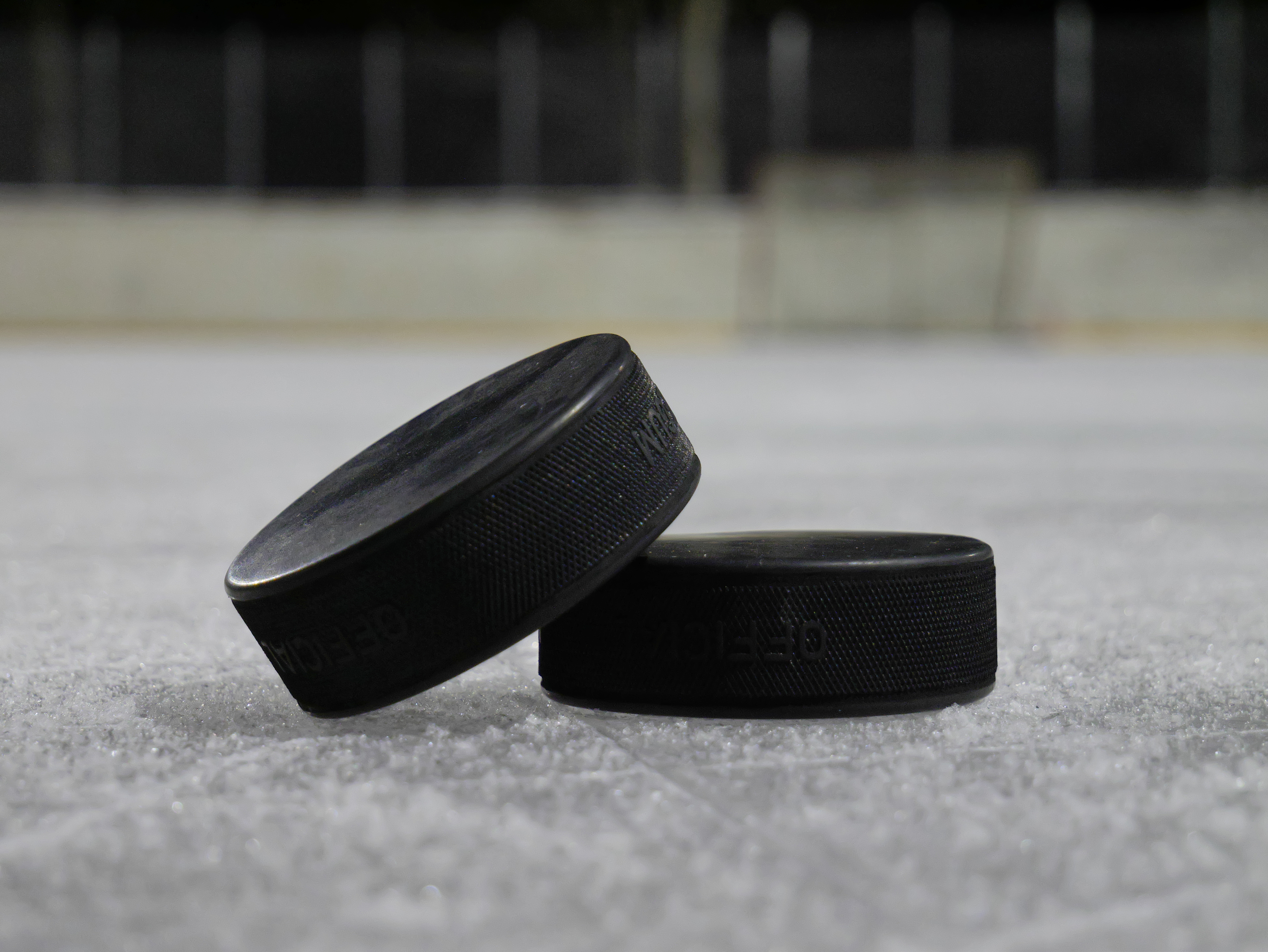 Ice hockey pucks on ice.